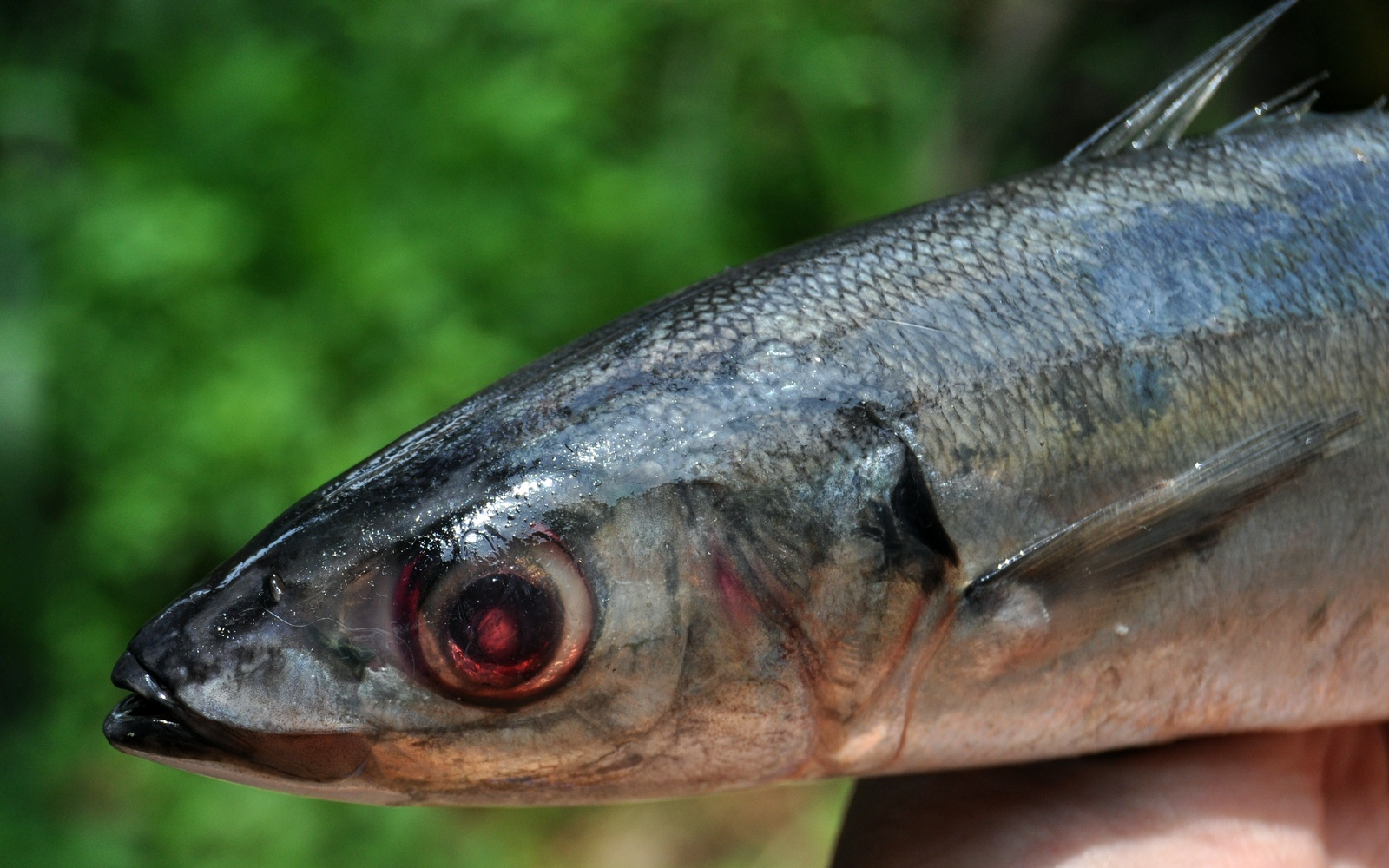 Decapterus macarellus from traditional market in Bogor, West Java, Indonesia. Head region.